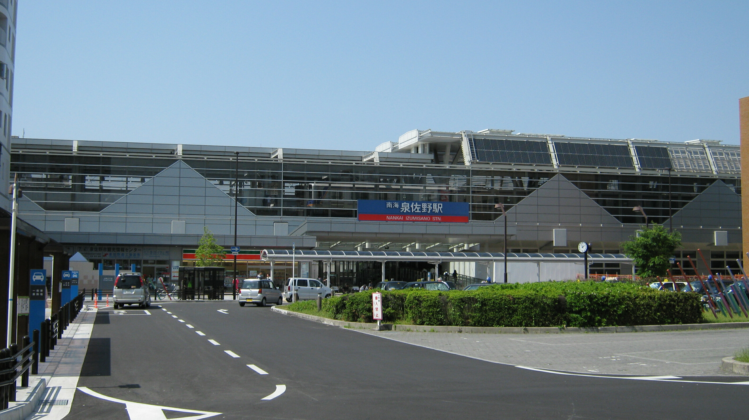 Izumisano Station (East side), Izumisano, Japan.